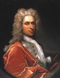 Thomas Lee colonial governor of Virginia